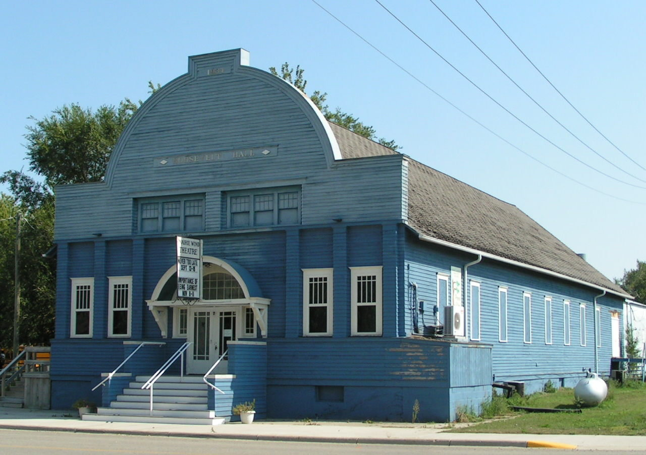 Roosevelt Hall in Barrett, Minnesota Object location45° 54′ 39″ N, 95° 53′ 17″ W